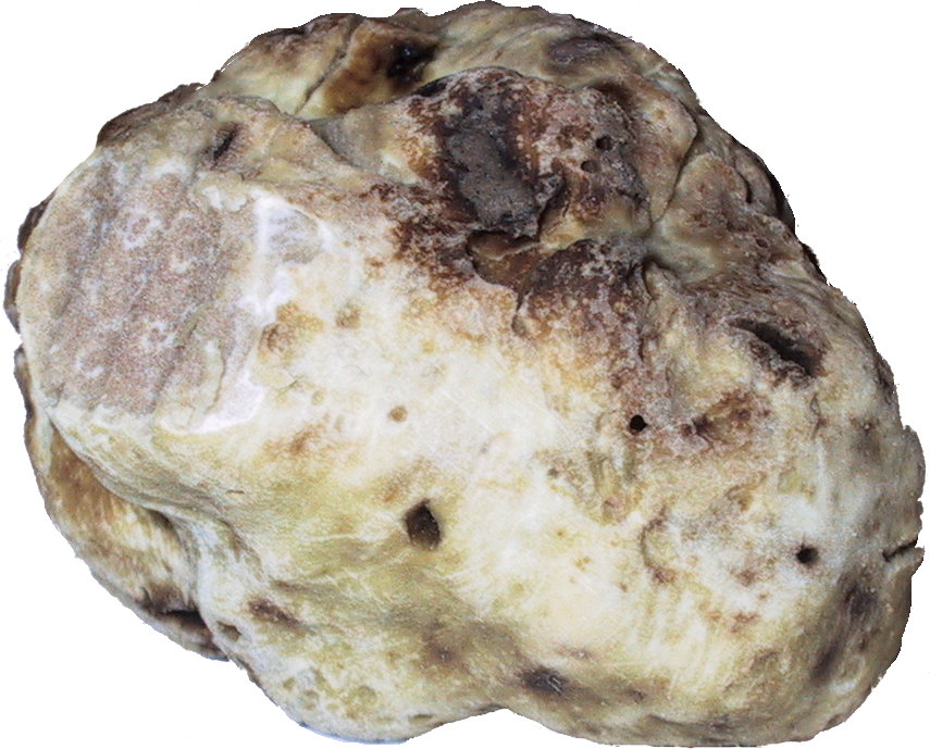 White truffle, washed and cut, photographed by myself